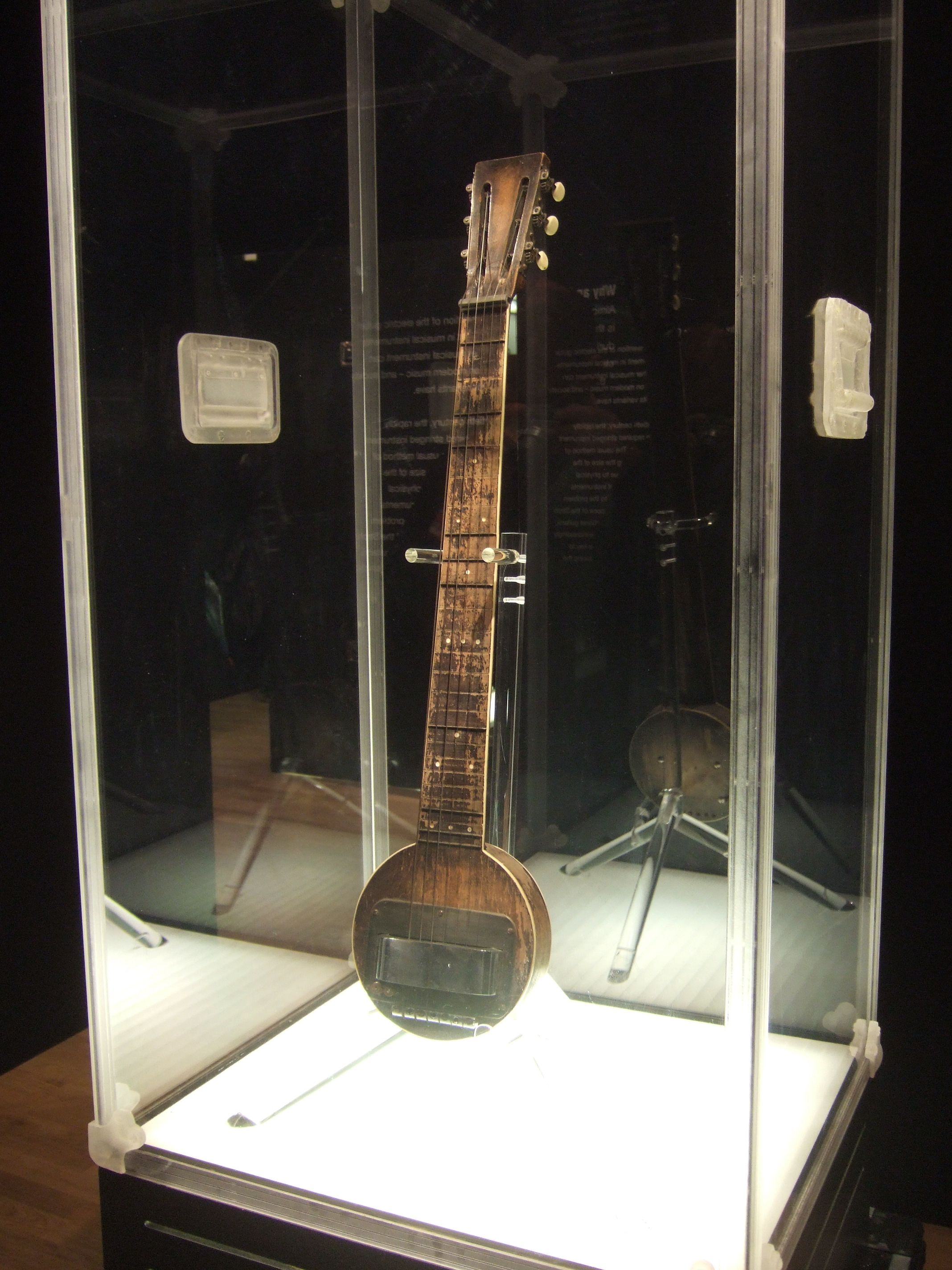 Rickenbacker Frying Pan lap steel guitar. One-piece maple prototype (1931), developed by George Beauchamp (electromagnetic “horseshoe” pickup), Paul Barth (body and neck design) and Harry Watson. When it went into production in 1932 (with one-piece aluminium cast body, neck and headstock), the Frying Pan was the world’s 1st electric guitar product. In this photo the wood prototype is shown on display at the Born to Rock exhibition at Harrods in 2007. “The "Frying pan (guitar)" in 1931/1932 was the first electric lap steel guitar ever produced, and one of the earliest electric guitar, along with the Stromberg Electro in 1928.[1]” —Frying pan (guitar) References ↑ Michael Wright (2000-02). "1000 Years of the Guitar, Part 2". Vintage Guitar.